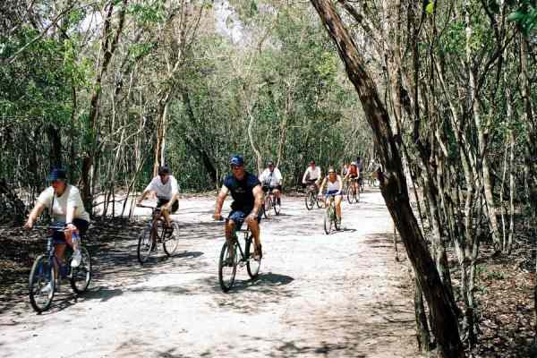 Bike tour in Cobá